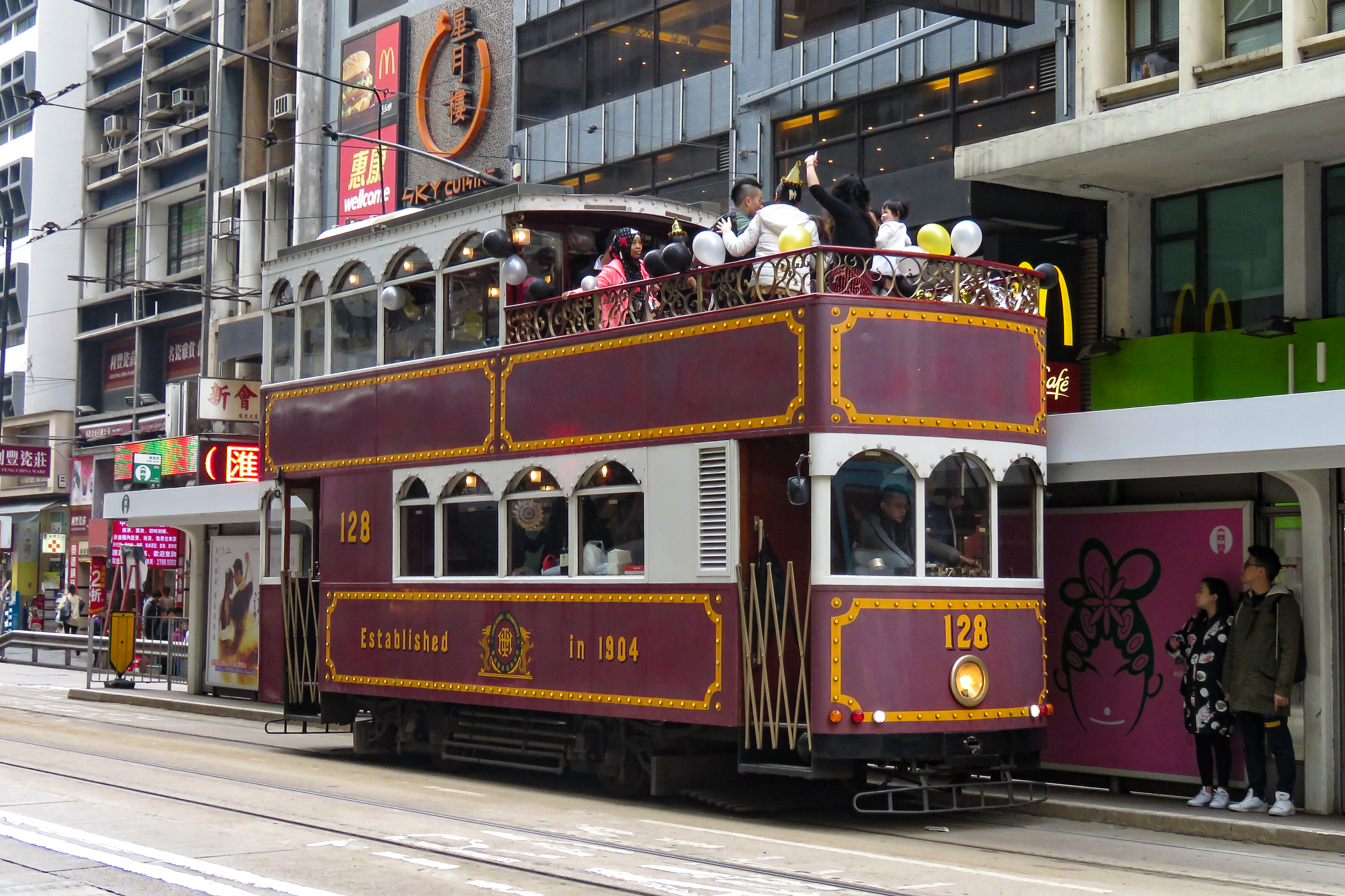 Here comes the party tram with an air conditioner installed.